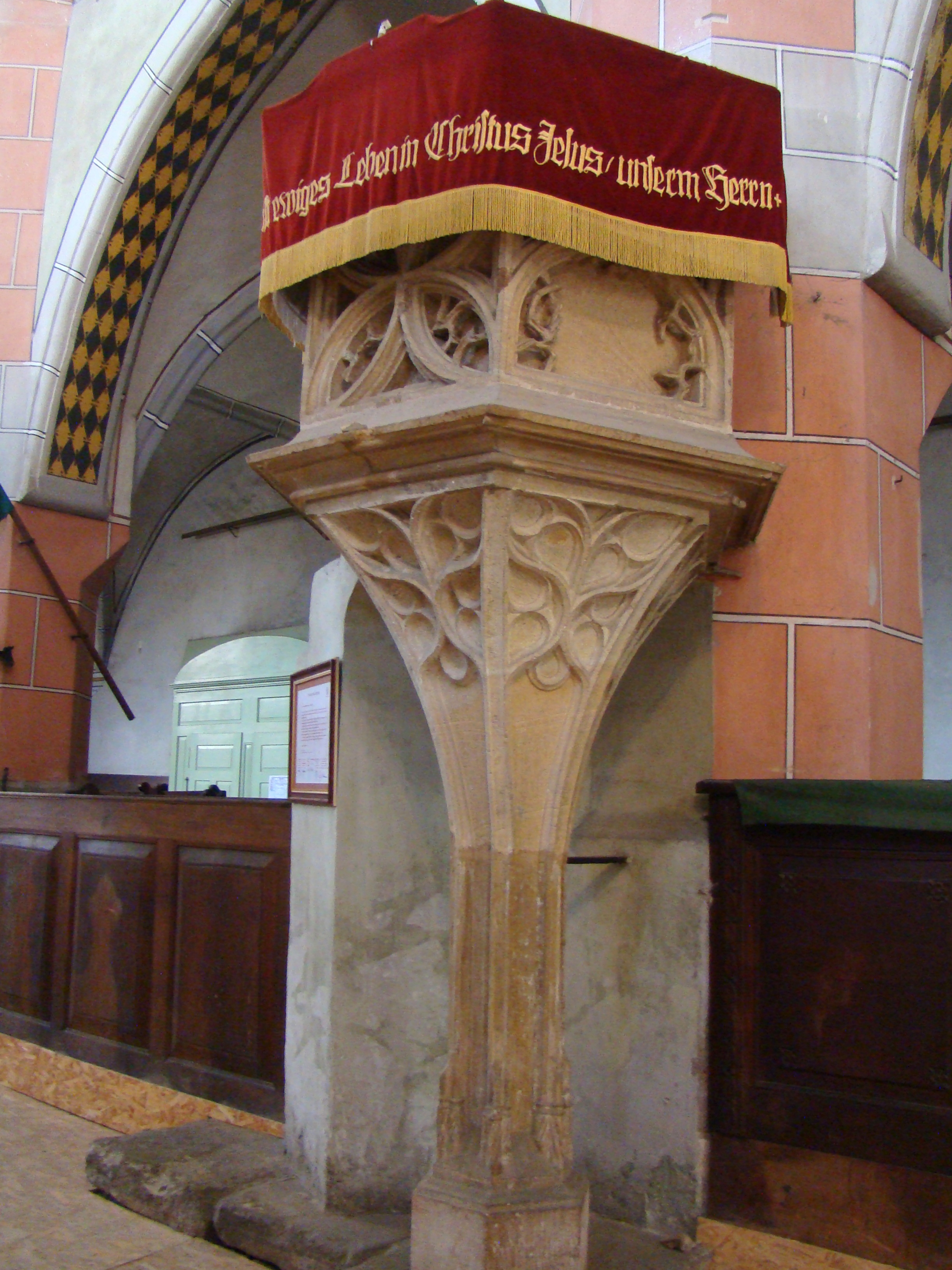 Lutheran church in Bistrița